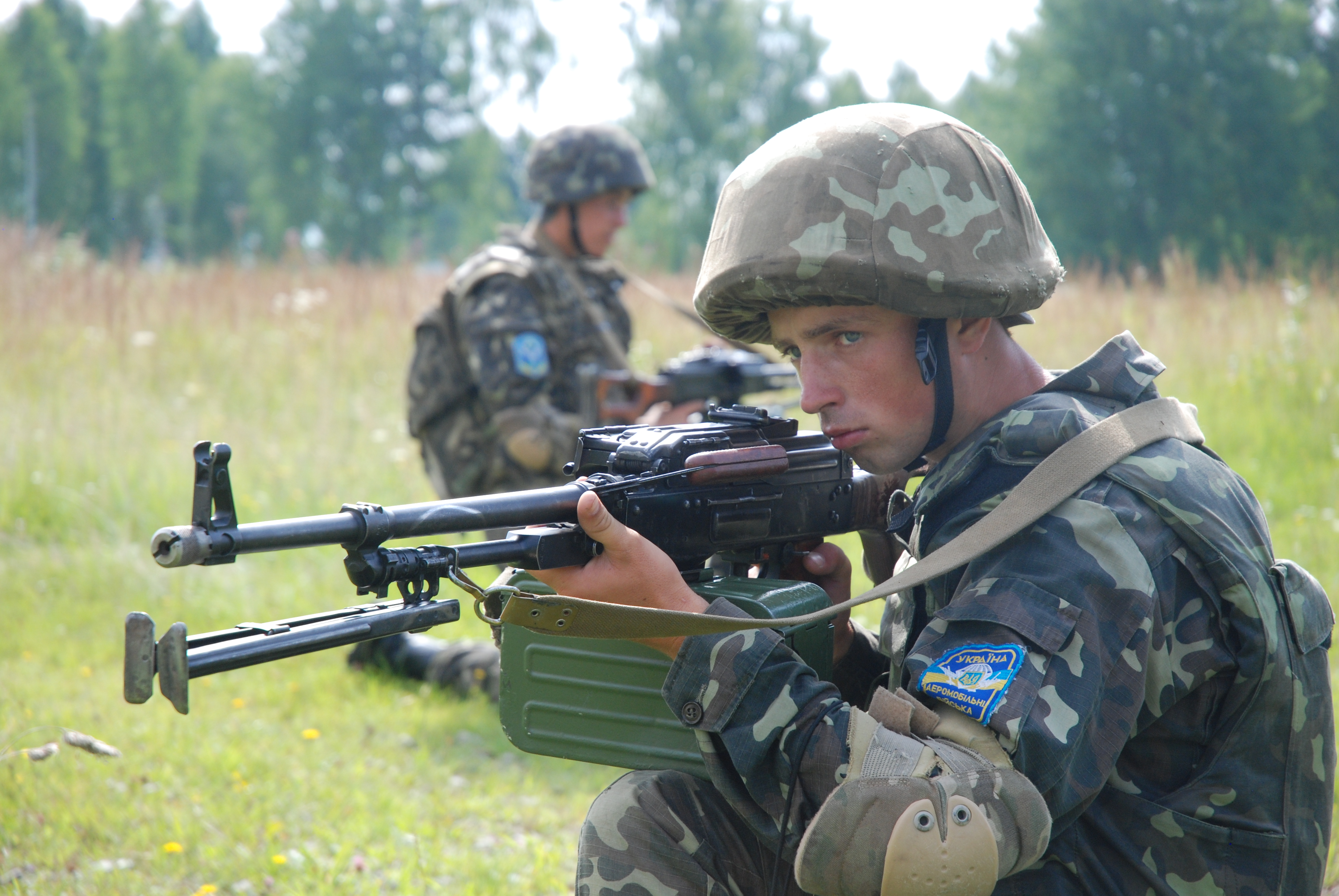 Yavoriv, Ukraine -- During a weapons familiarization and shooting range, paratroopers from Battle Company, 2nd Battalion, 503rd Infantry Regiment, 173rd Airborne Brigade Combat Team and the U.K.'s 2nd Parachute Regiment take turns learning about and firing the other country's rifles and machine guns during Rapid Trident 11, July 29. Rapid Trident 11 is a U.S. Army Europe-led, multi-national exercise, involving approximately 1600 personnel from 13 countries. (Photo by: Army Spc. Michael Sword 173rd Airborne Brigade Combat Team Public Affairs.)